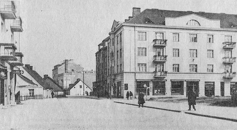 Tutkowski family property on Starowiejska St. in Gdynia, Poland